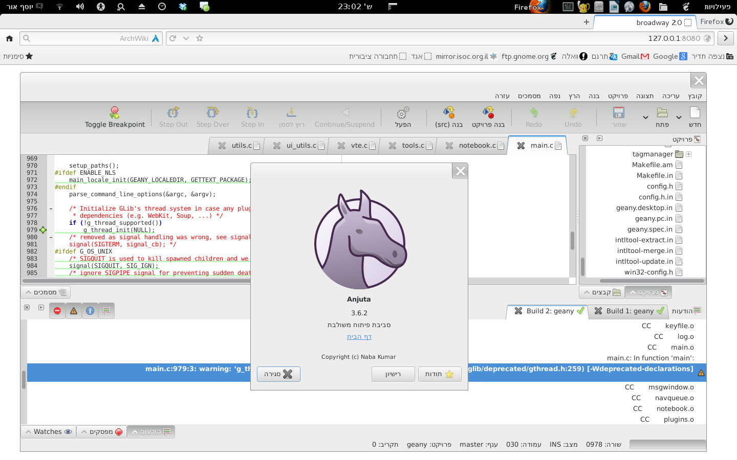 Anjuta in Firefox With GTK+3 suppot to HTML5